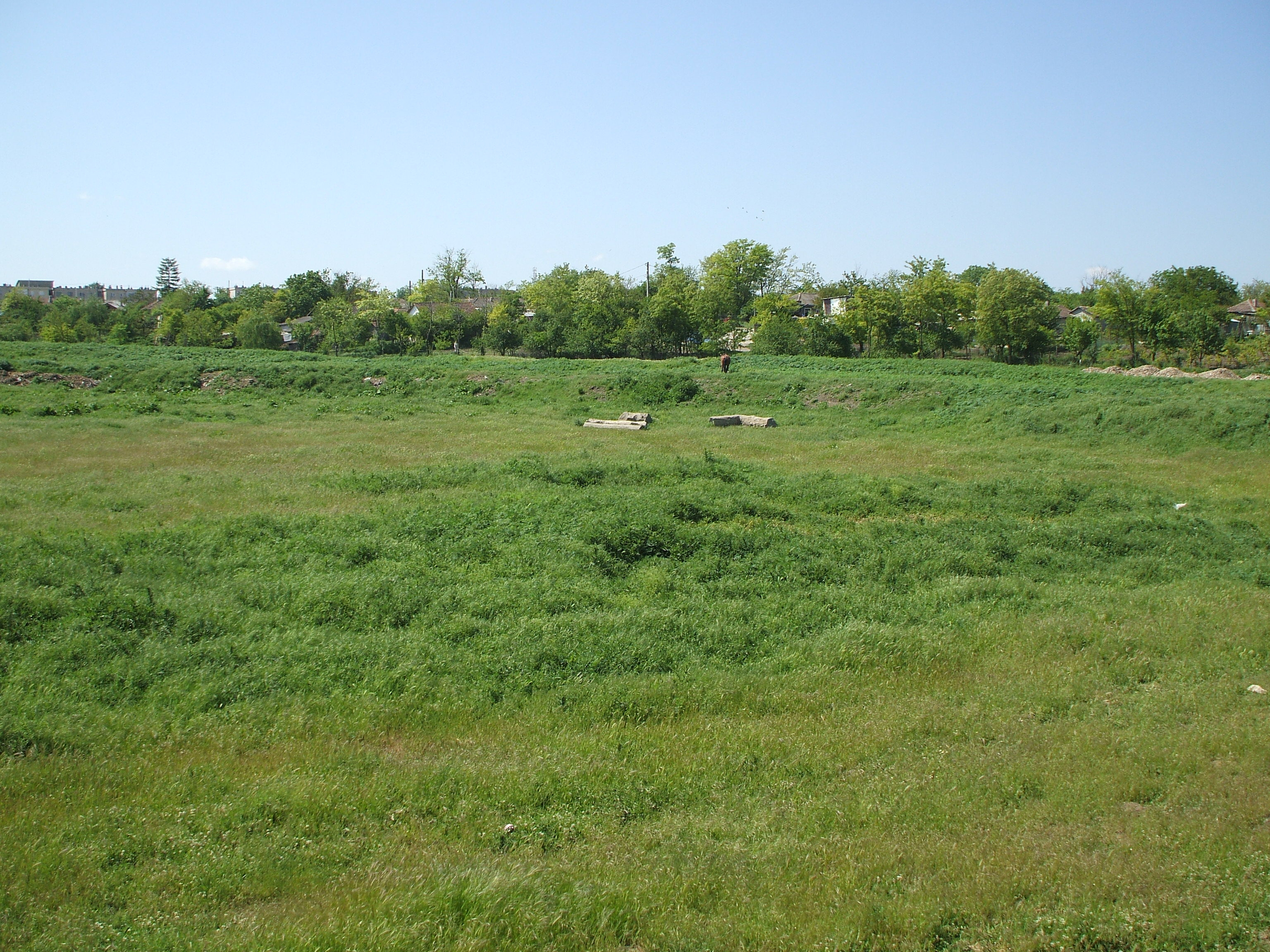 Gâldău lake located near Negru Vodă city. As it was summer, the lake was completely dried out.